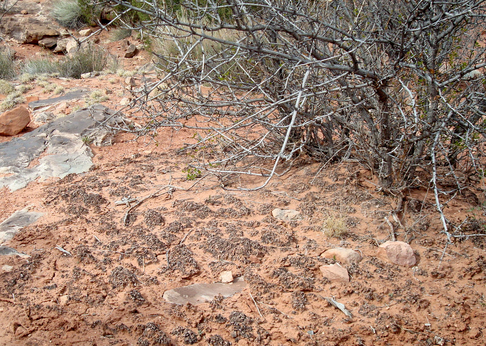 Cryptobiotic Soil. Taking centuries to form, black, crusty cryptobiotic soil enriches the earth and allows other desert plants to take root., Arches National Park.